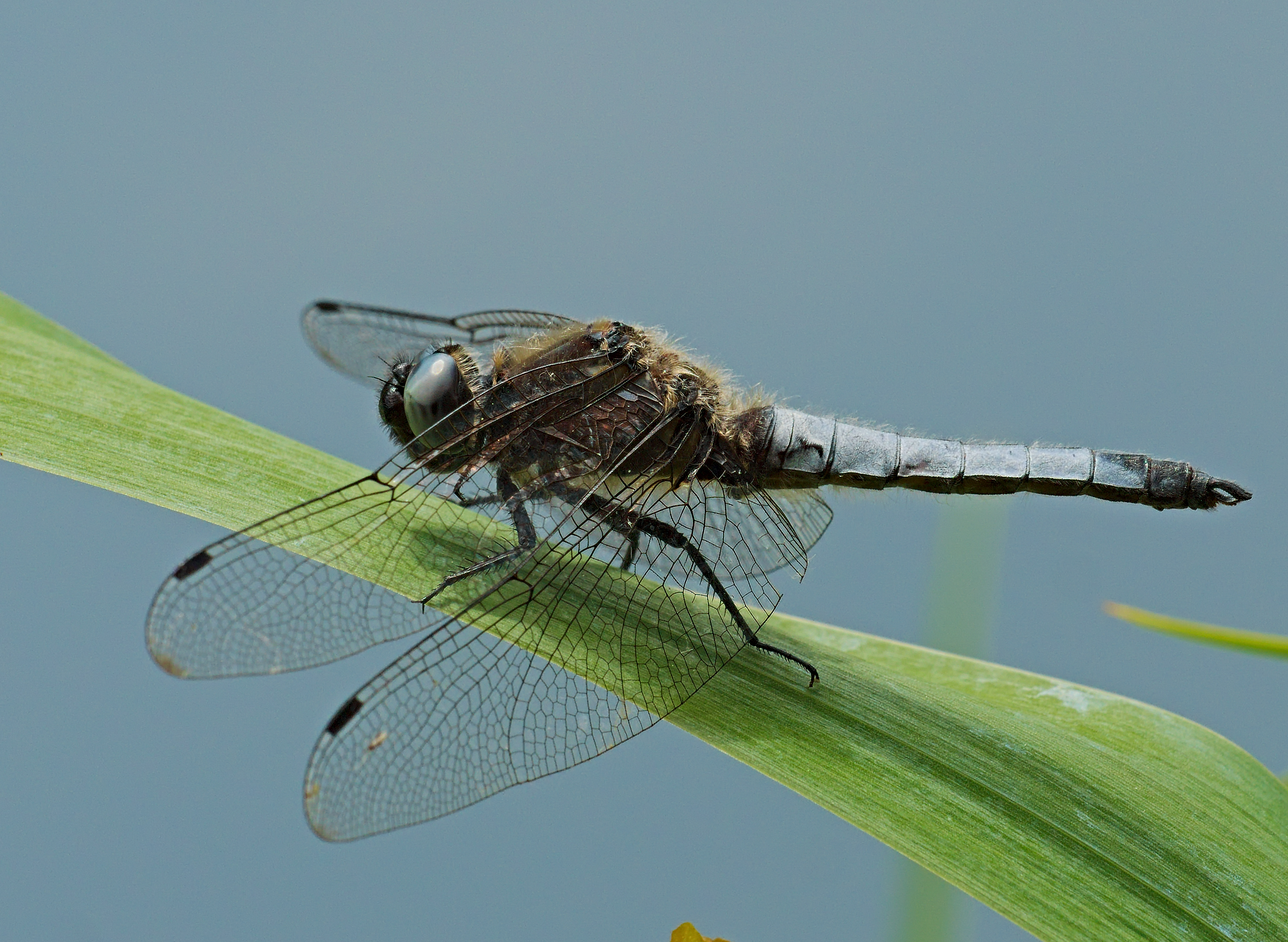 Scarce chaser - Libellula fulva, male. Taken by the fishing ponds in Rimbach, Hesse, Germany.